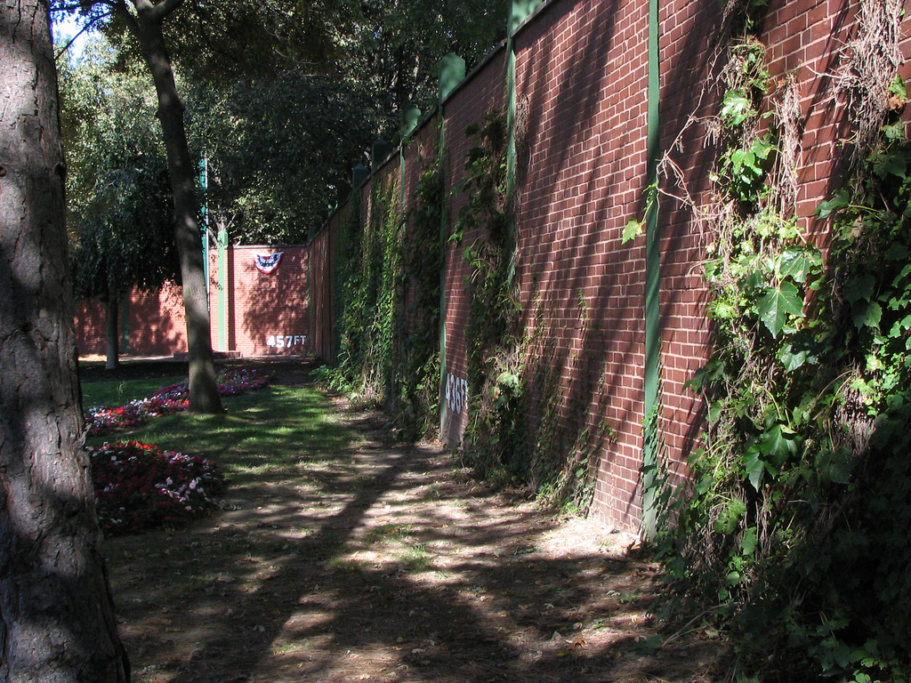 Remains of the outfield walls from the old Forbes Field which was the home of the Pittsburgh Pirates from 1909 to 1970.